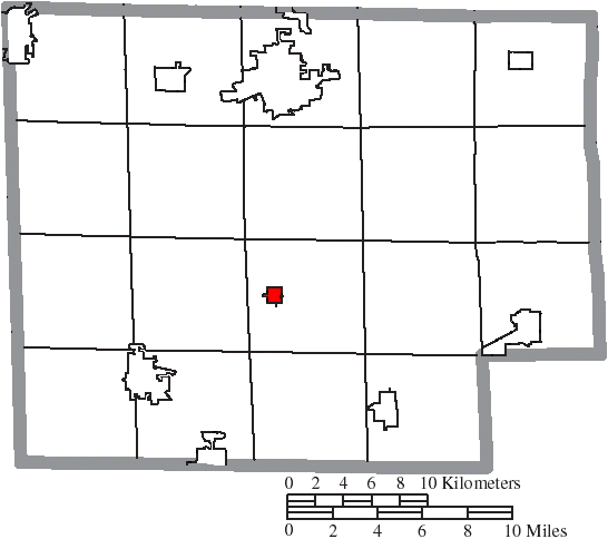 Map of the municipal and township boundaries of Huron County, Ohio, United States, as of the 2000 census, with the location of the village of North Fairfield highlighted. Township borders are shown only in unincorporated areas in order to differentiate incorporated and unincorporated areas more clearly.